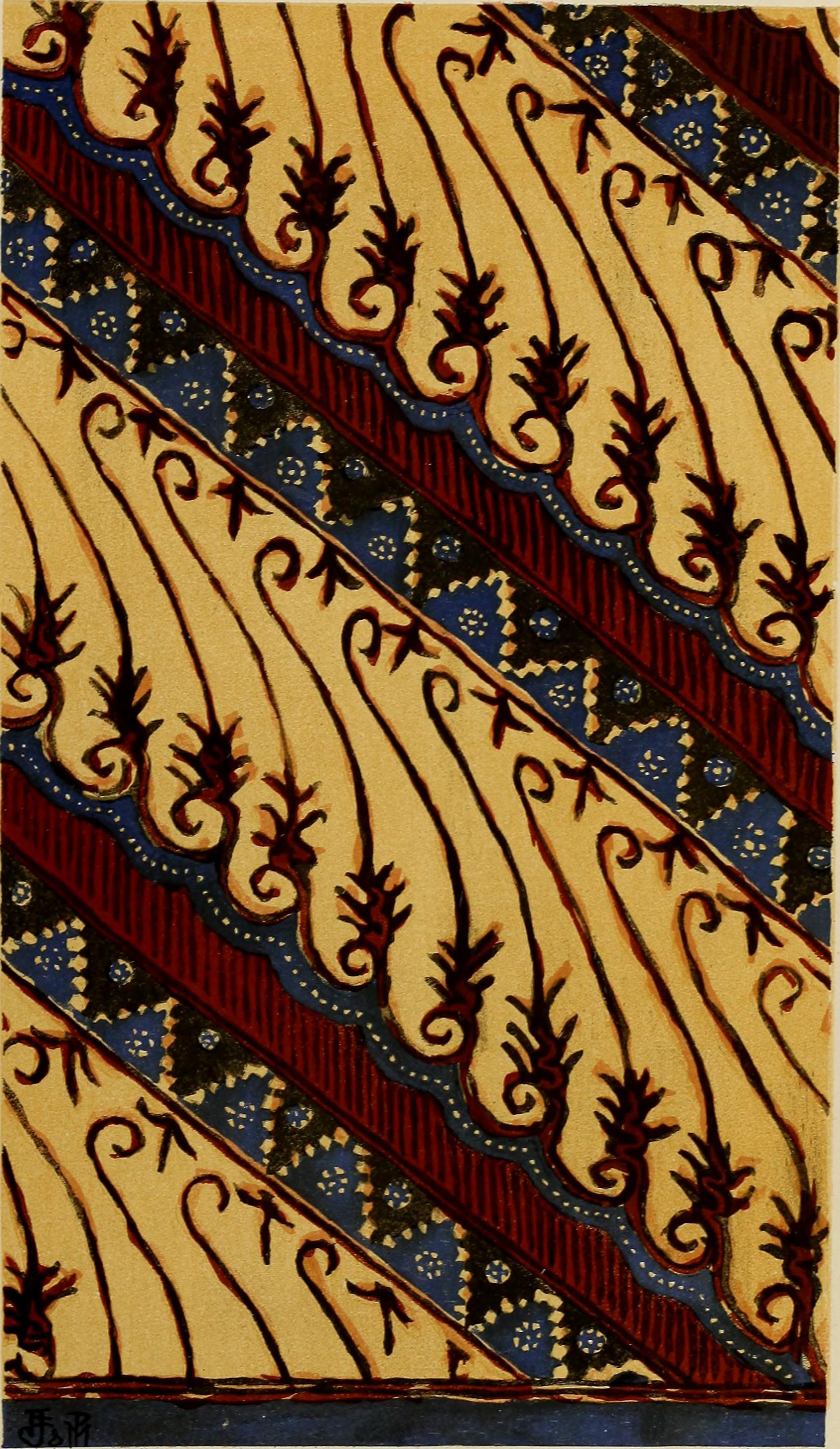 Title: De inlandsche kunstnijverheid in Nederlandsch Indië Year: 1912 (1910s) Authors: Jasper, J. E Pirngadie, Mas Subjects: Decorative arts Batik Textile fabrics Weaving Publisher: 's-Gravenhage, Mouton & co. Text Appearing Before Image: an t i n g i; voor donkergroen (i dj o toewa): eerst een onderdompeling van het goed in indigo en daarnain curcumasap en azijn; voor lichtgroen (idjo nom): onderdompeling van het goed in een afkooksel van curcuma,d j a r a k en citroen. Of ook: eerst een onderdompeling in een slappe indigo-oplossing en daarnain een afkooksel van den bast van den mëmpëlam hitam (een soort mëmpëlam of Man-gifera) of van den laban-boom (den Vitex pubescens Vahl, zie hiervoren) met daoen dan-danggoela (bladeren van de Telanthera strigosa Moq, behoorende tot de Amarantaceae),curcuma en citroensap; voor bruinrood (abangkëtèl): eerst de doek olieën, d.w.z. met dj arak-olie en loog behande-len (nglojor, ngëtèl) en daarna dompelen in een afkooksel van mëngkoedoe en djirëk.In H. N. Kiliaans opstel: De Inlandsche kunstnijverheid in de afdeeling Patjitan (Tijdschriftvoor Nijverheid en Landbouw in Nederlandsch Indië, deel XLIV afl. 6, 1892) wordt voor hetgroenkleuren het navolgende recept opgegeven :48 Text Appearing After Image: Plaat 4. BATIK VAN PEKALONGAN.Gevarieerd parang ménang-patroon. (Voor het kleurprocédé zie b!z. 66 en 67; voor het patroon zie blz. 157 en 158.)